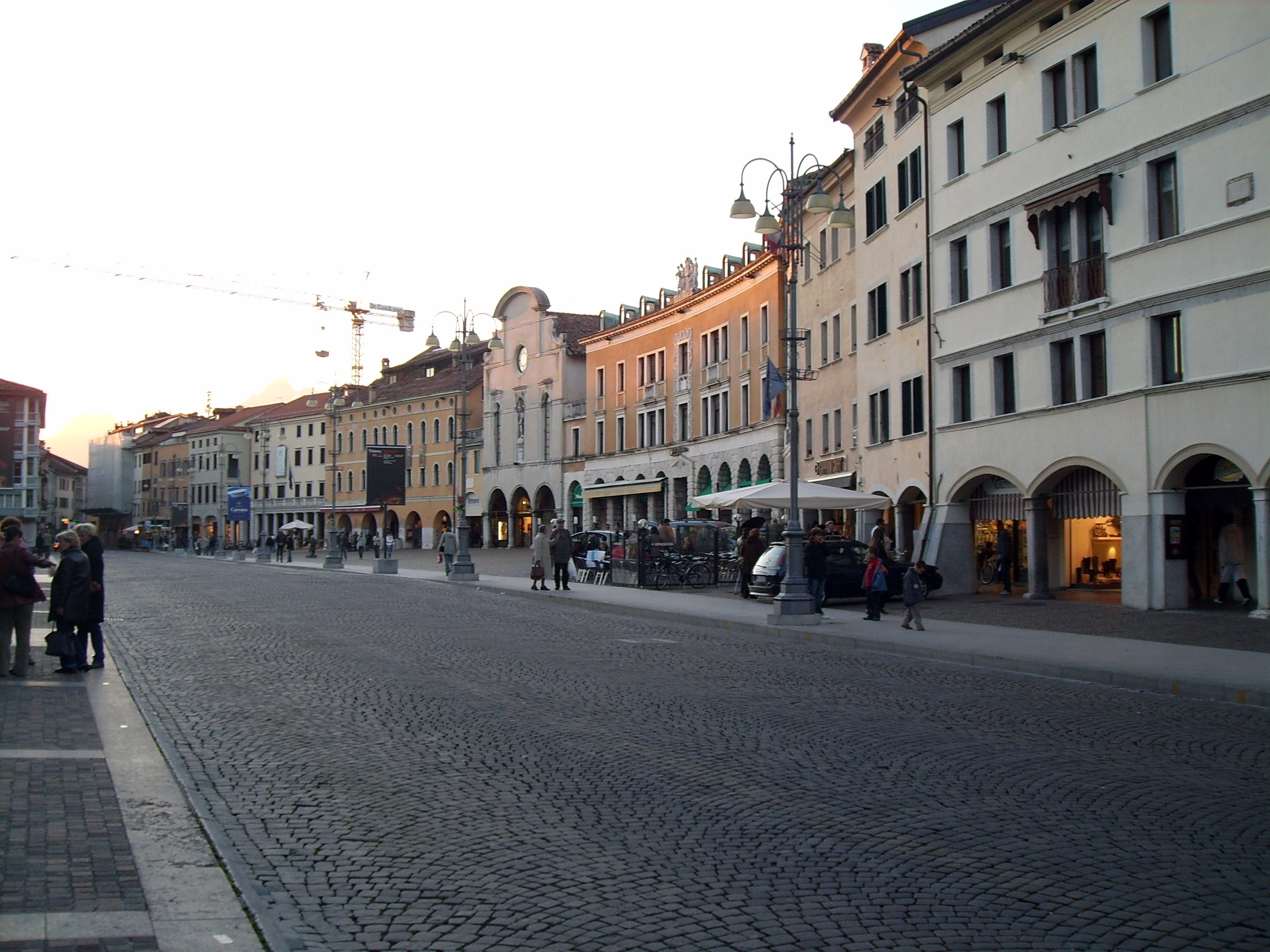 Piazza dei Martiri (Heroes of freedom's square) ,Belluno,Italy